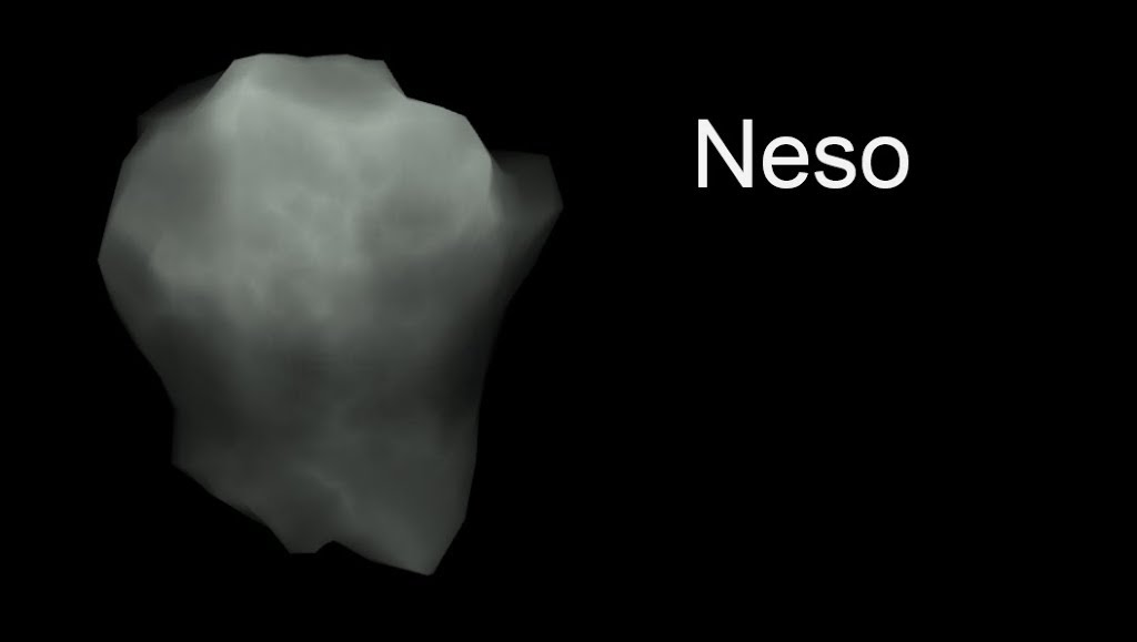 Neptune's moon Neso